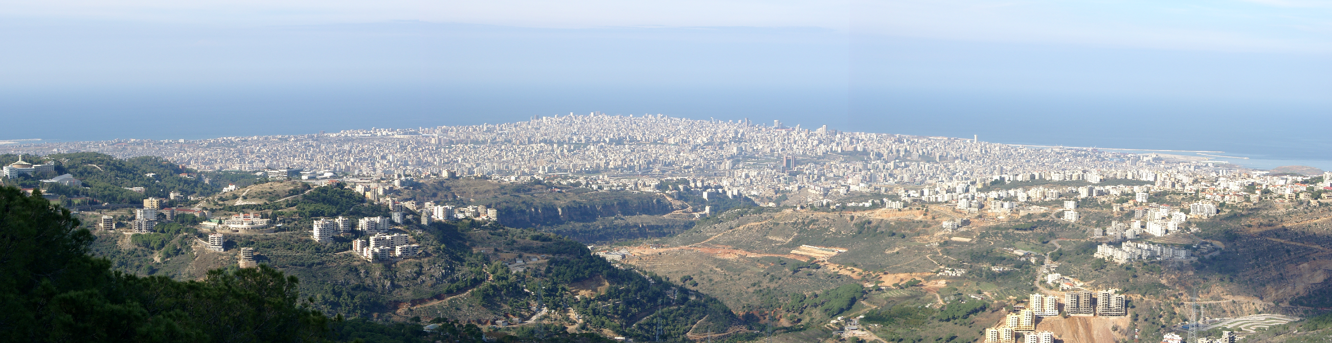 Beirut seen from the slopes of Lebanon Mountains. Panaroma stitched from three photos